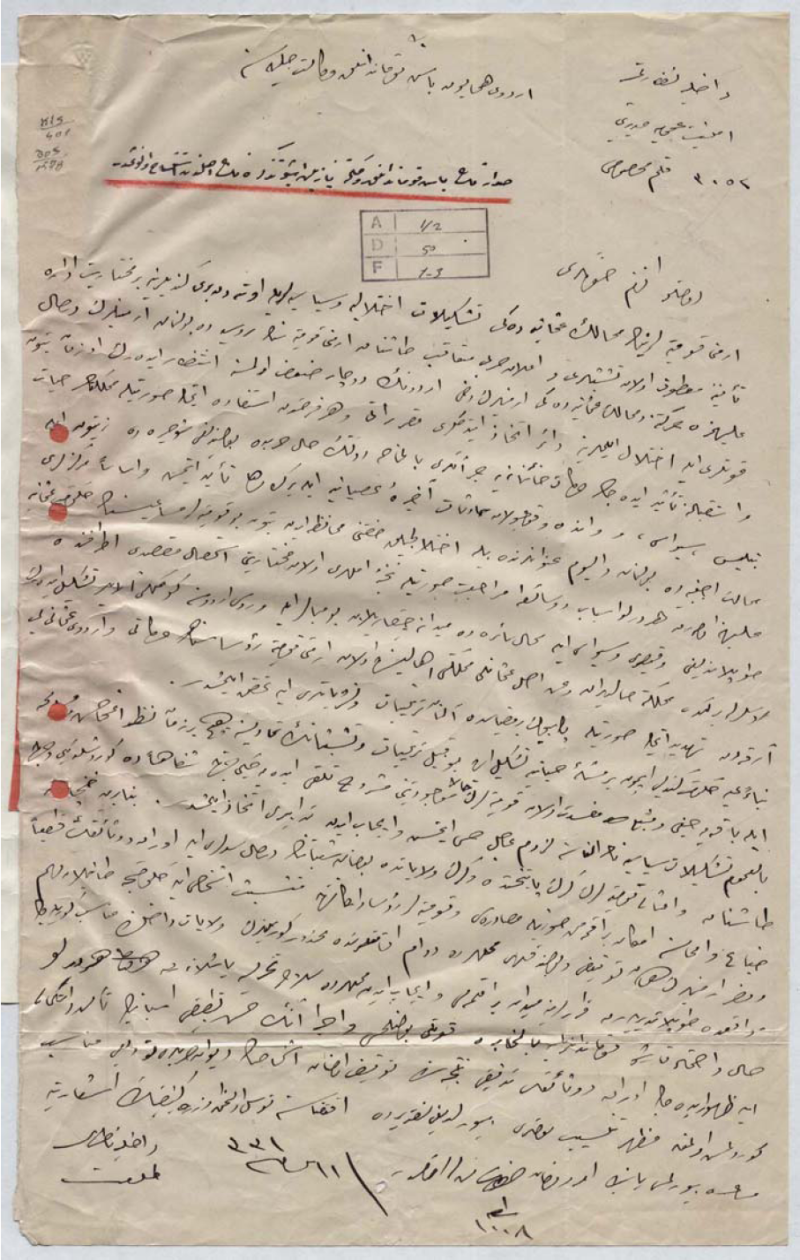 The order of the Mehmed Talat Bey who was the Ottoman Empire's minister of the Interior. With this document Armenian notables were deported from the Ottoman capital in 1915.